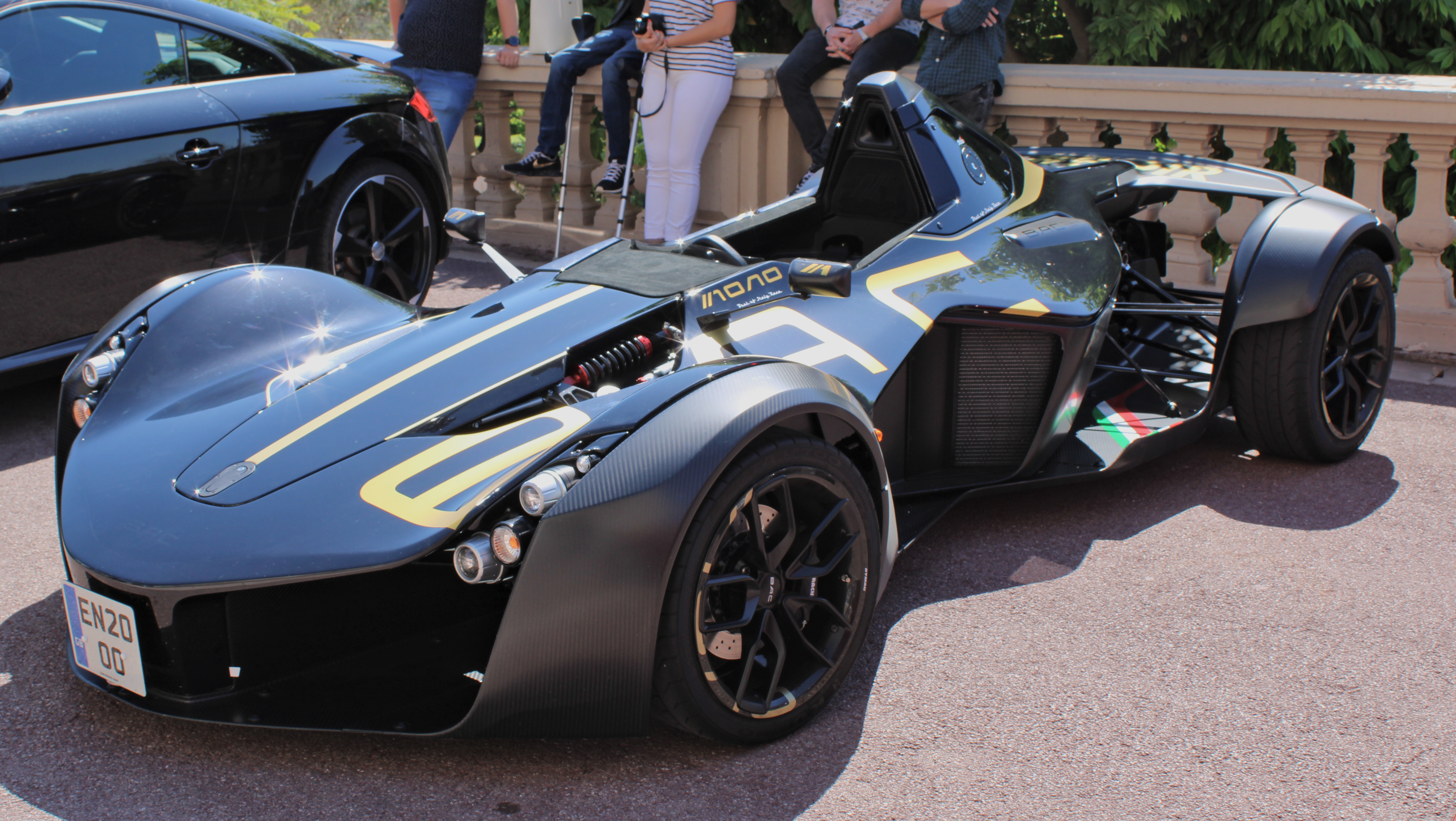 BAC Mono in Monaco